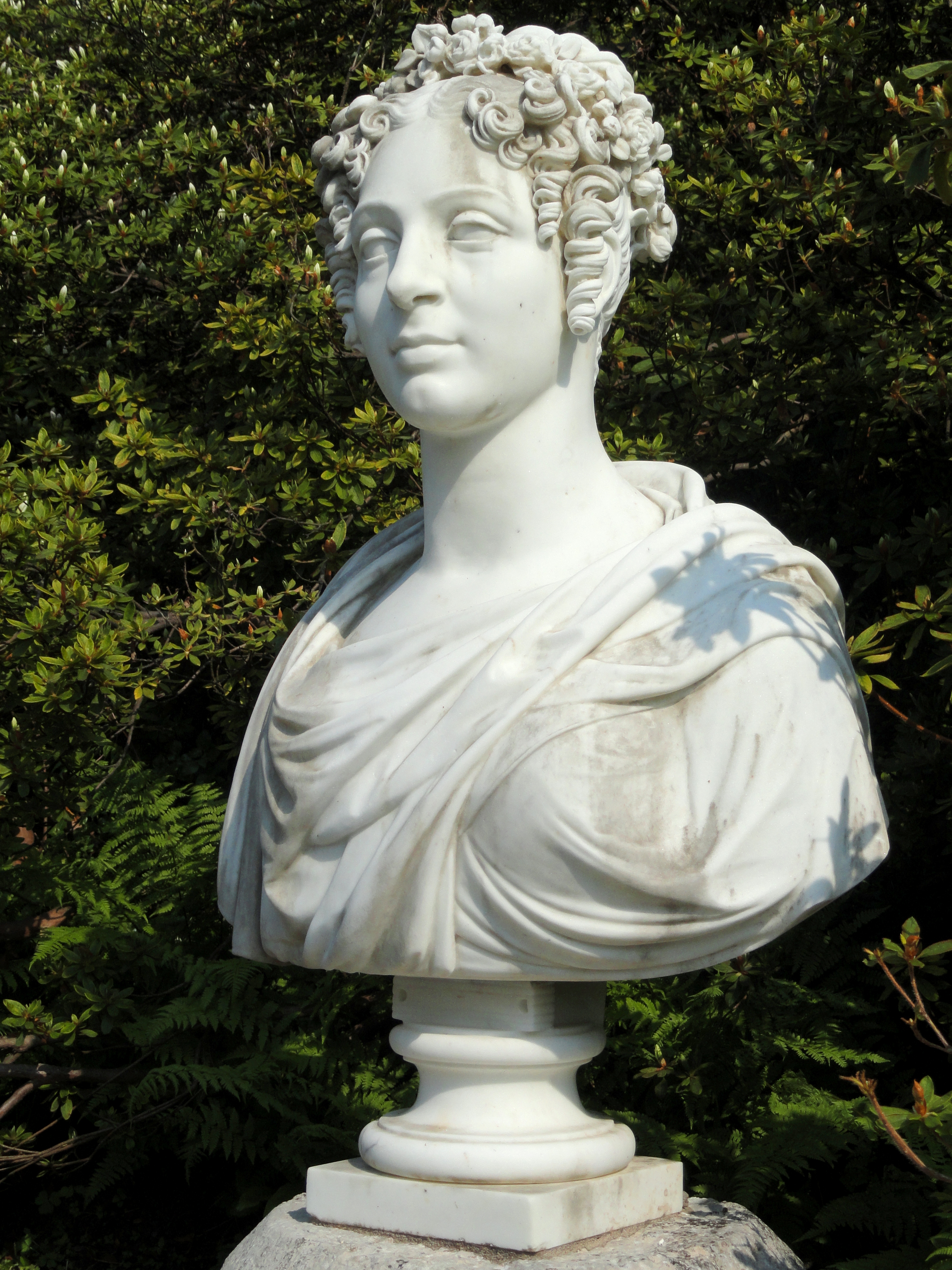 Statue of Maria Durazzo Melzi d'Eril (1801-1822?), on the grounds of the Villa Melzi (Bellagio), on Lake Como, Italy.